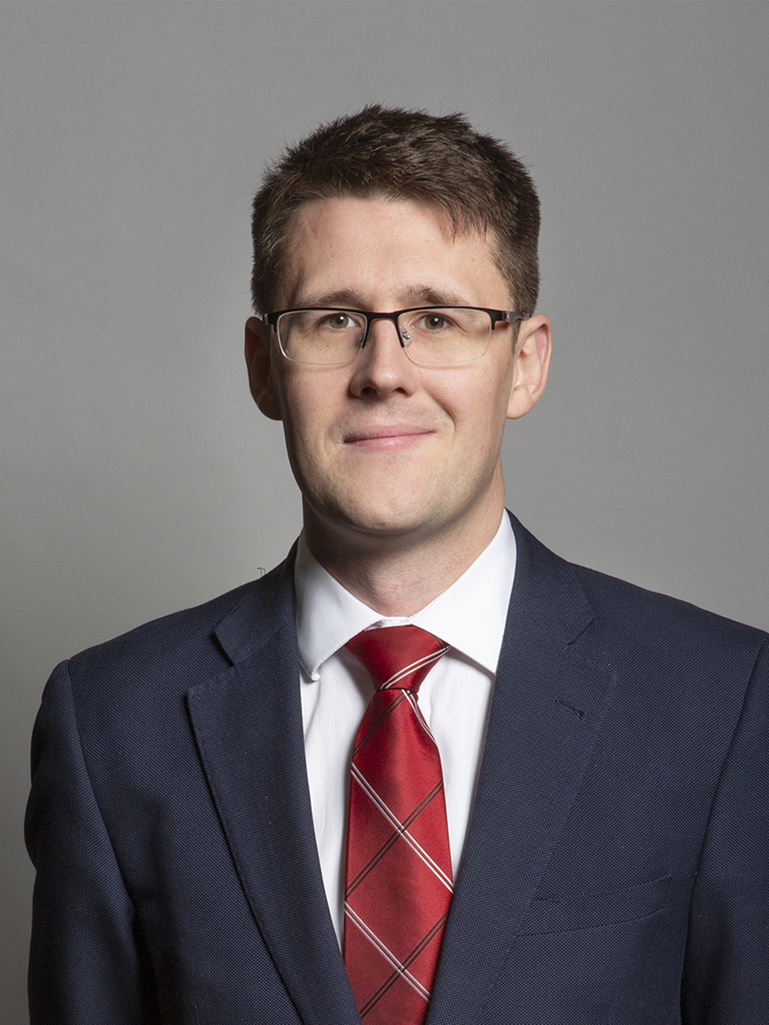 Official portrait of David Linden MP 3×4 portrait of David Linden